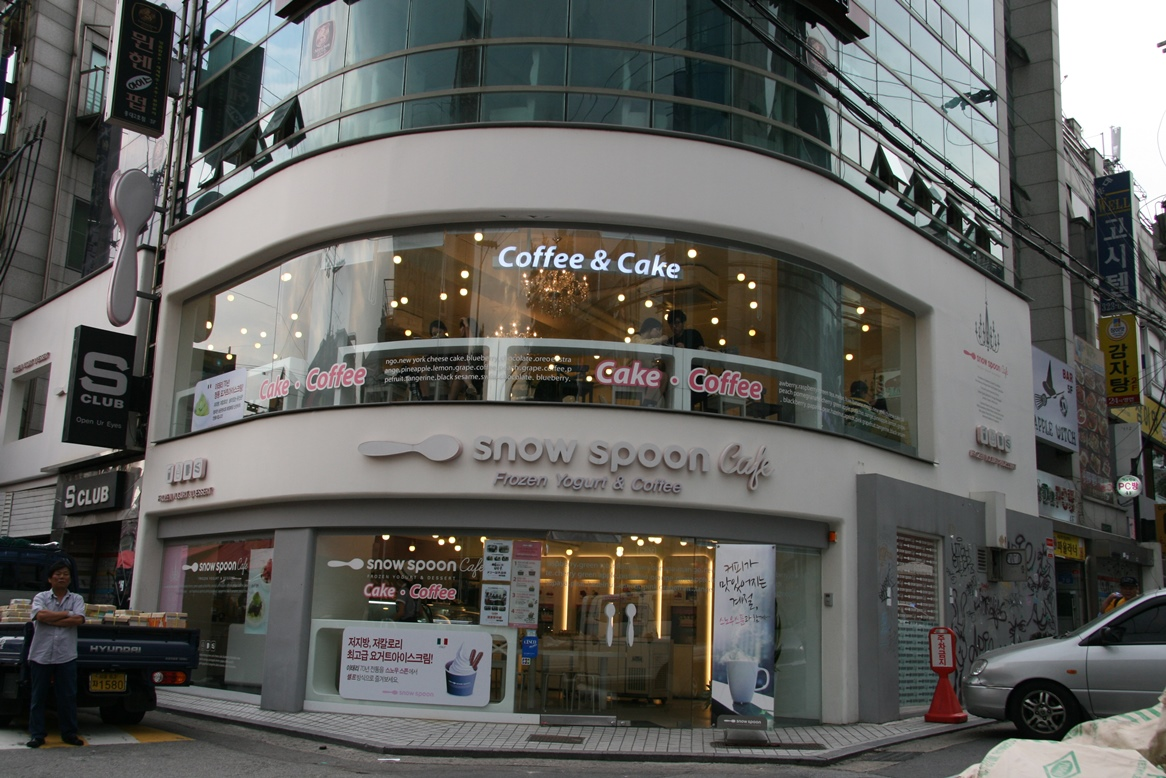 Snow Spoon cafe on Eoulmadang-ro in Hongdae, Mapo-gu, Seoul in 2012